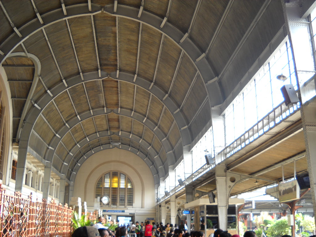 Stasiun Kota (Kota Station), part of Jakarta's old city. Opened in 1929.